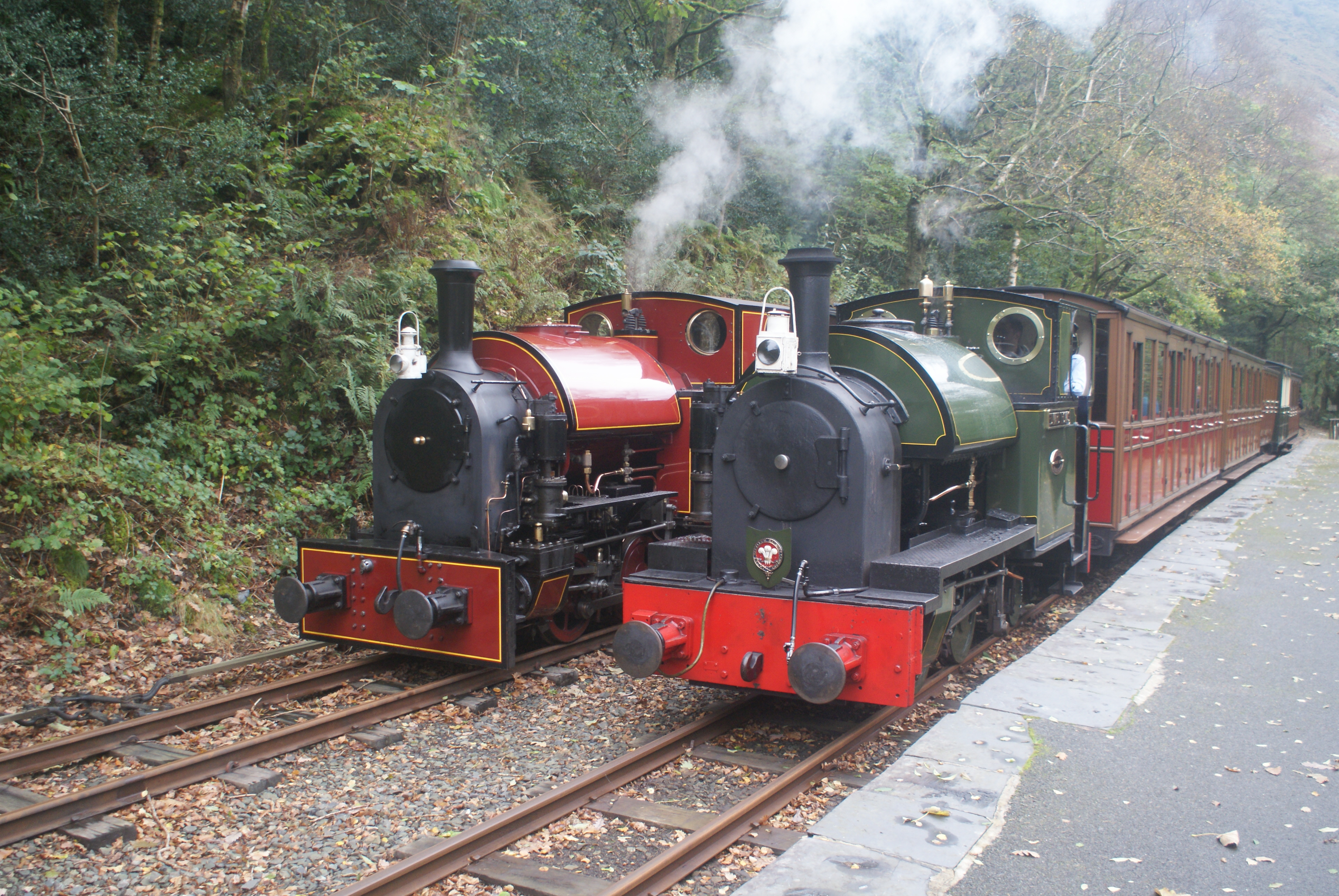 Corris Railway locomotive No. 7 (left) and former Corris locomotive No. 4 Edward Thomas at Abergynolwyn on the Talyllyn Railway, Wales